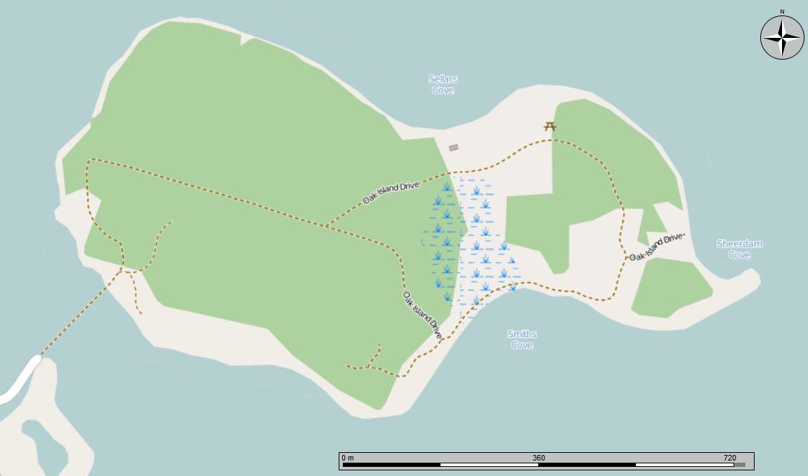 Map of Oak Island, Nova Scotia. Shows the swamp near the middle of island, there the supposed treasure is located. OpenStreetMap from the Marble program.